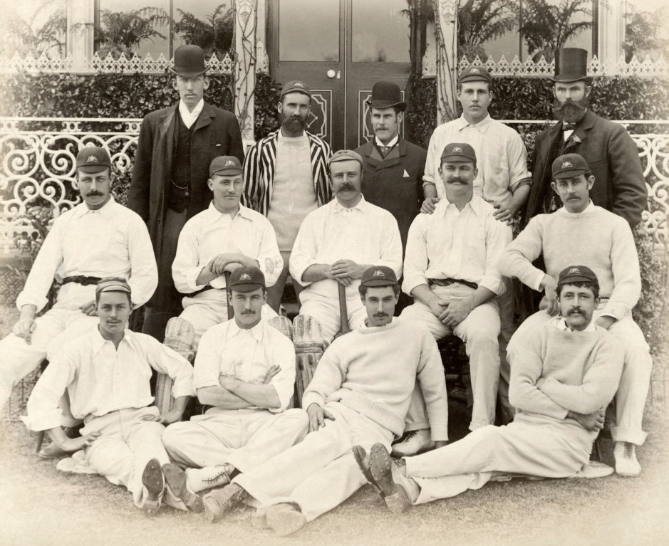 Scan of the 1890 Australia national cricket team Back row (l-r) Hugh Trumble, Jack Blackham, Kenneth Burn, Jack Barrett, Harry Boyle Middle row (l-r) Francis Walters, Harry Trott, Billy Murdoch (captain), Jack Lyons, Charles Turner Front row (l-r) Syd Gregory, John Ferris, Percie Charlton, Sammy Jones